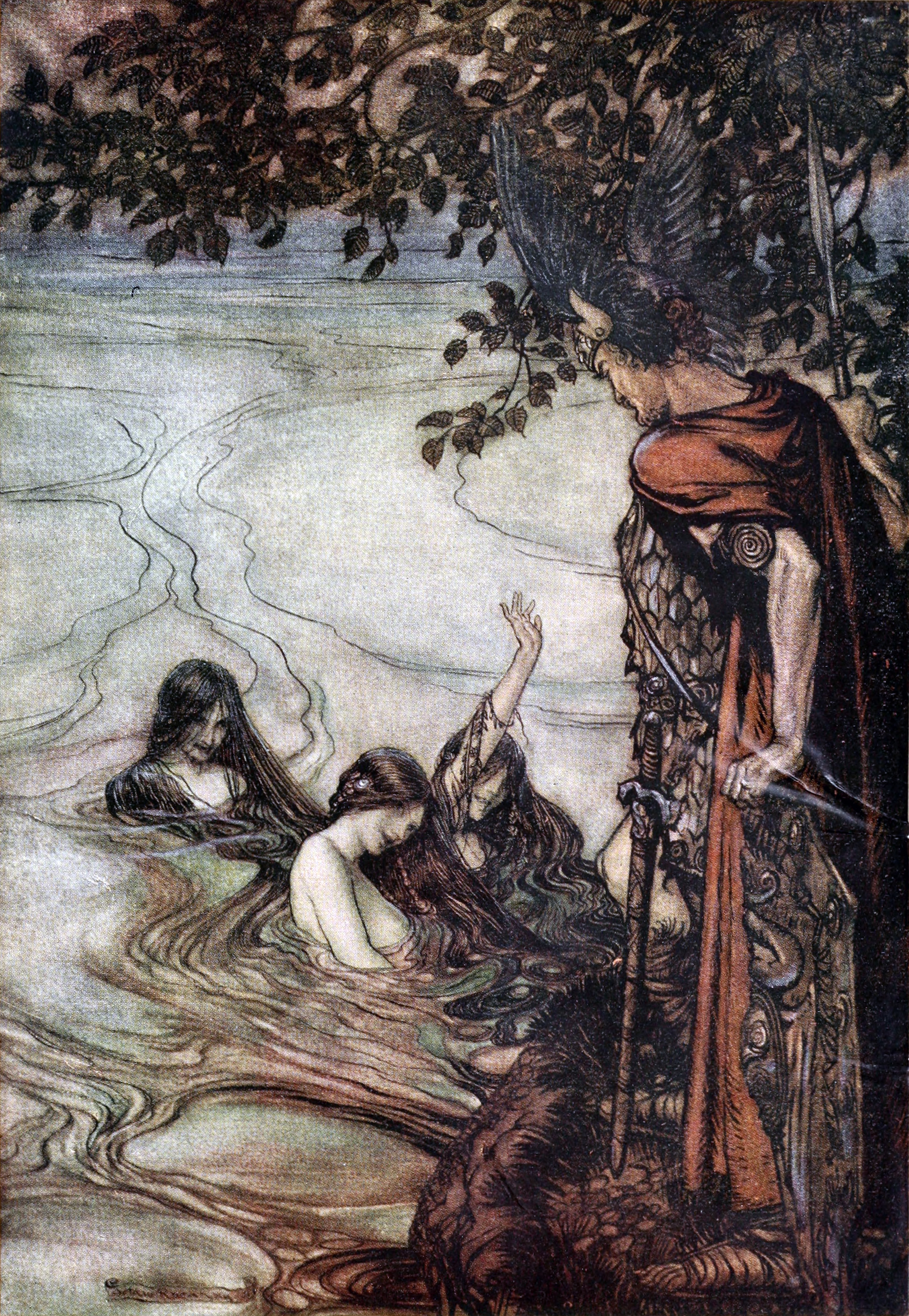 "Though gaily may ye laugh, / In grief ye shall be left, / For, mocking maids; this ring / Ye ask shall never be yours."